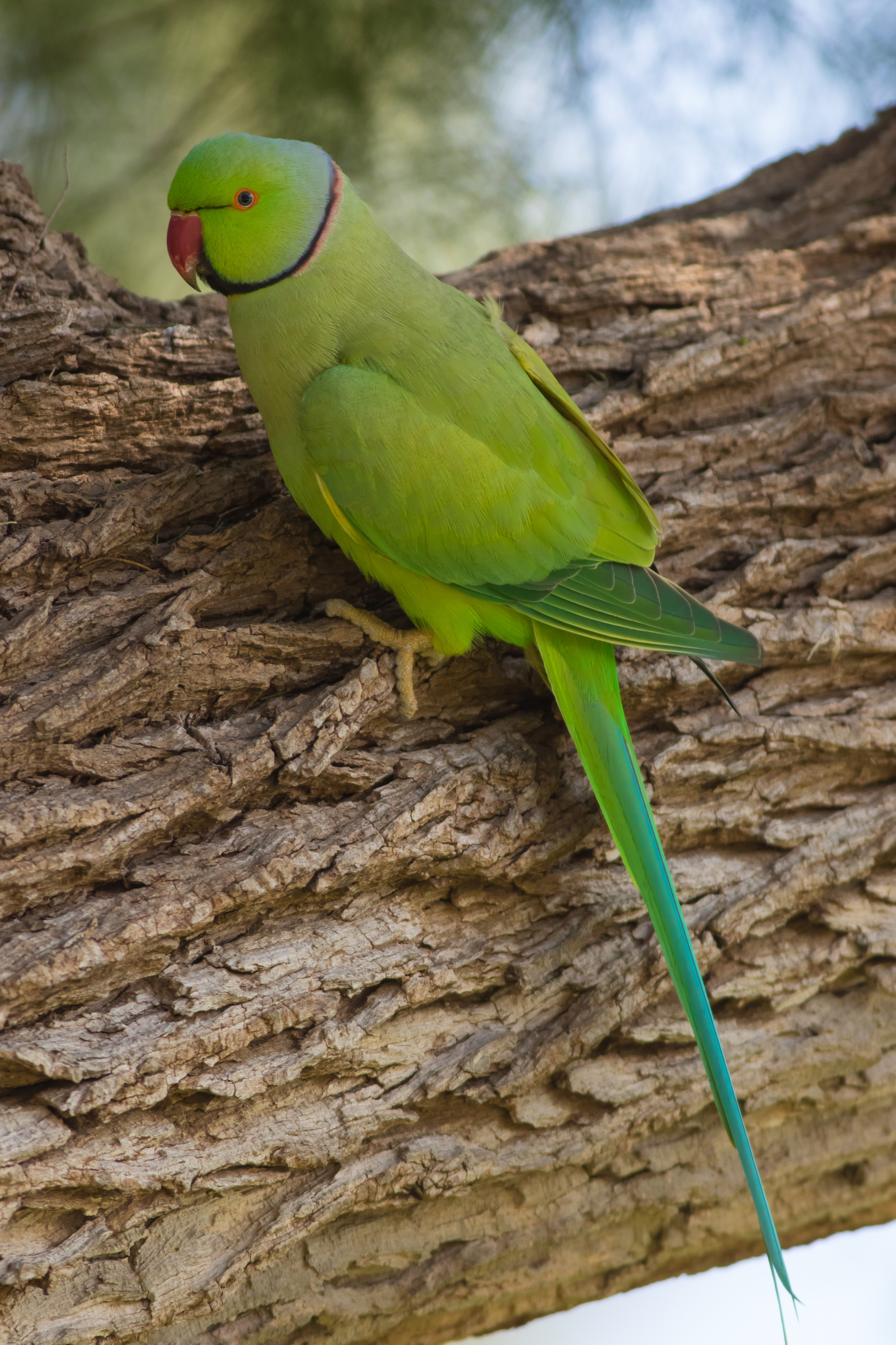 Rose-ringed parakeet, Ashkelon National Park, Israel.